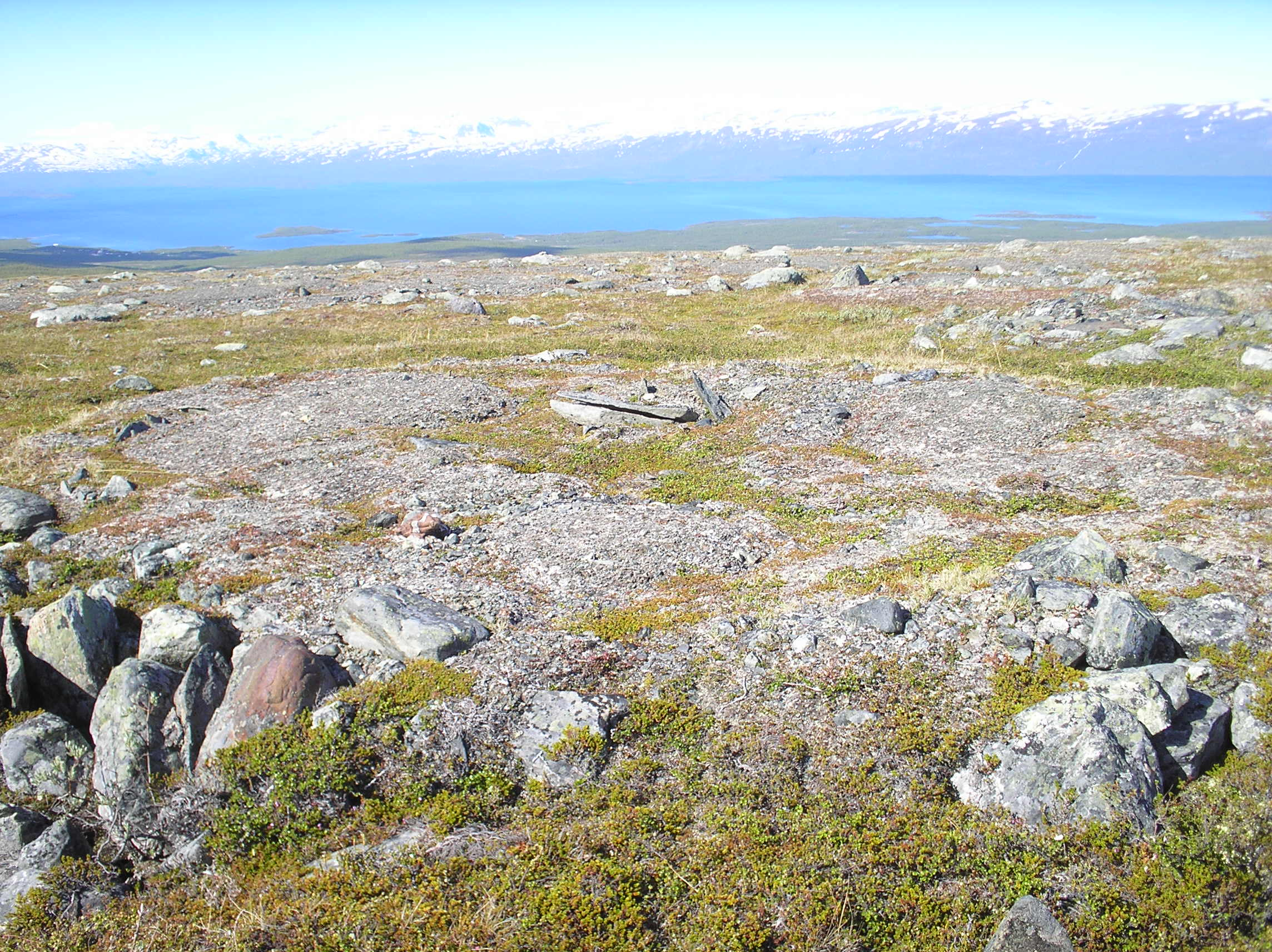 Mud boils on the way to Lapporten, Abisko, Sweden